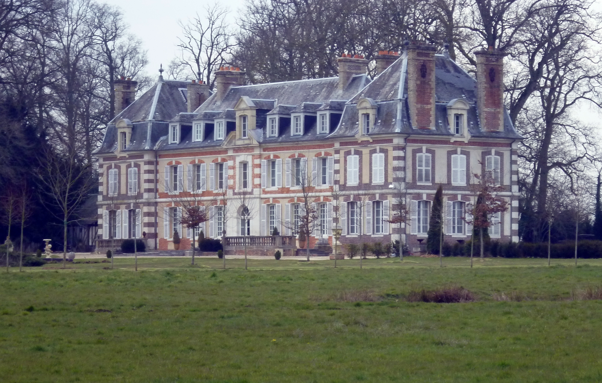 This manor house in Saint-Victor-d'Épine (Normandie, France) was built in the 18th century, aggrandised in the 19th century.